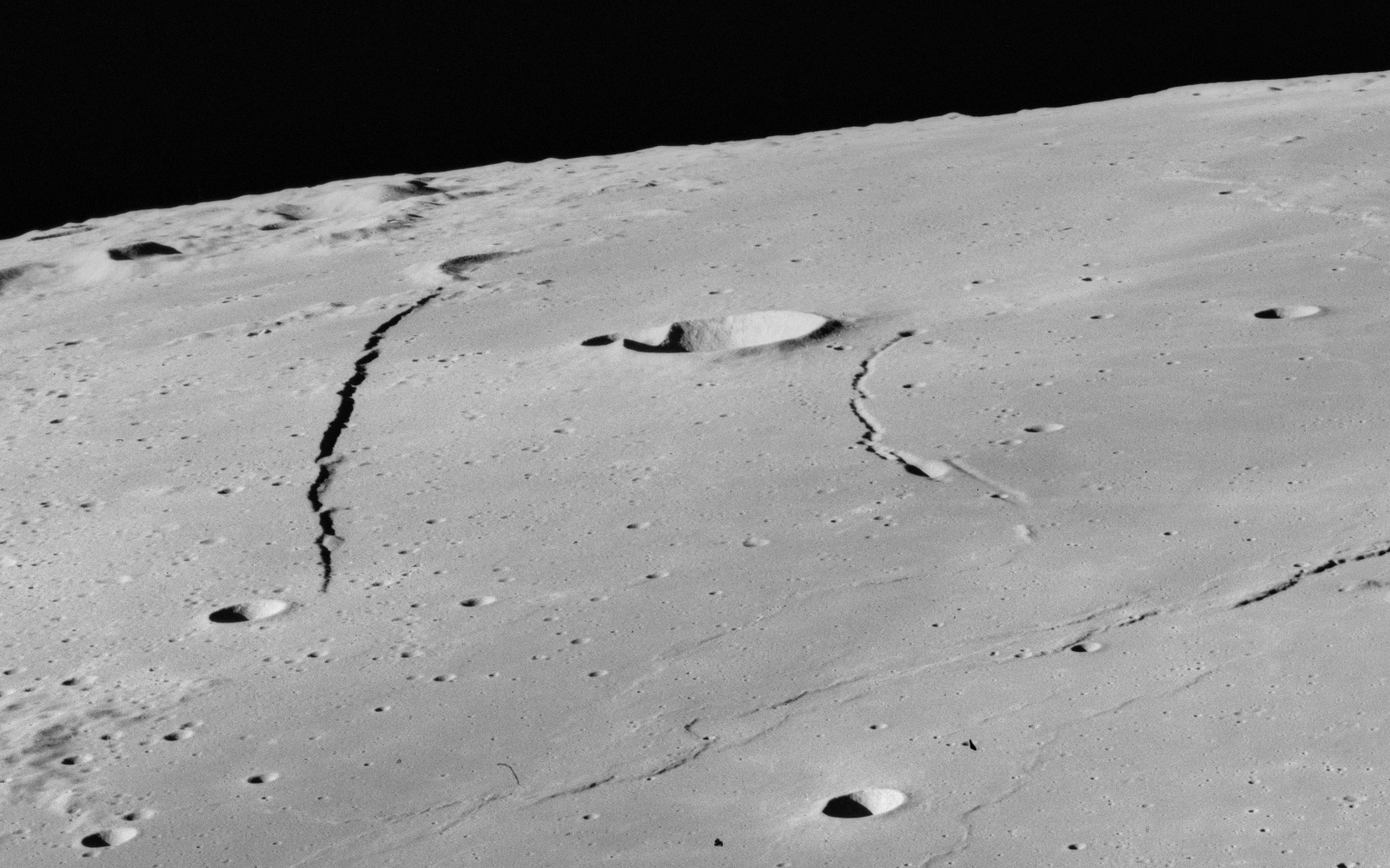 Oblique view facing roughly south of Rupes Recta ("The Straight Wall", at left), Birt Crater (center), and Rima Birt (right), on the moon.